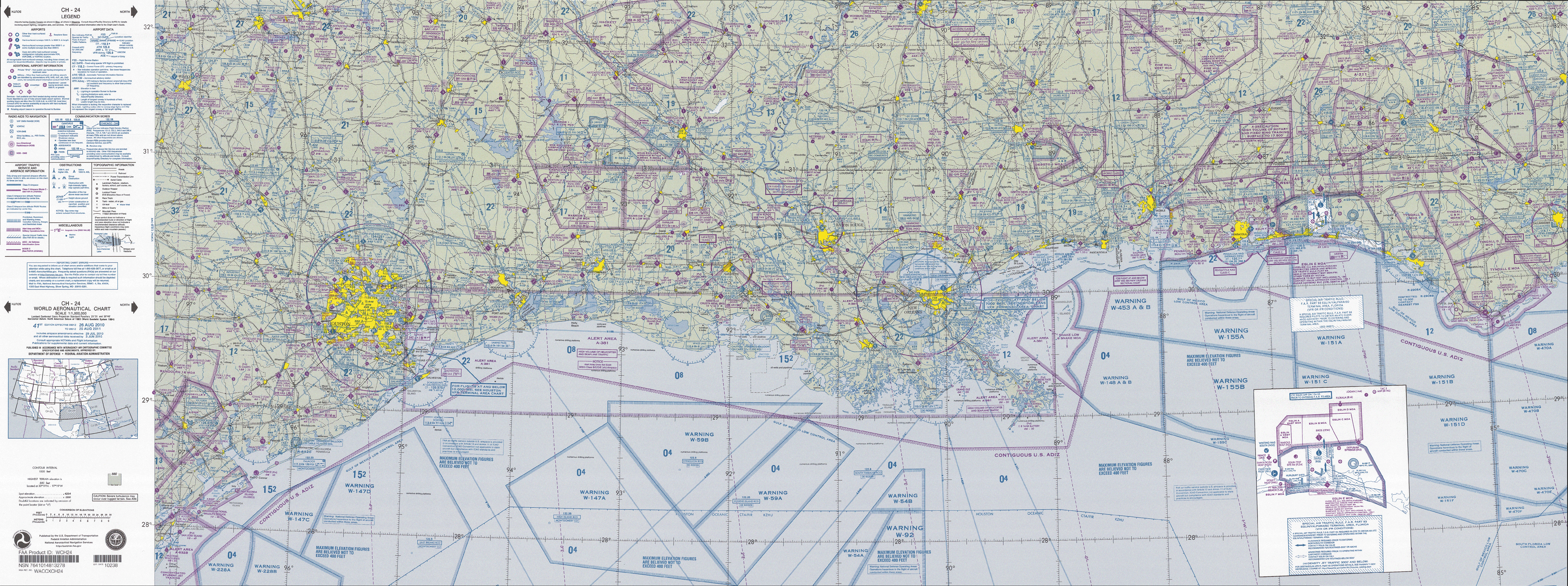 FAA World aeronautical chart CH 24 North, 41st edition (northern Gulf of Mexico). Note: This map is valid until 15 August 2011, for navigational purposes be sure to get the newest edition at the official FAA website